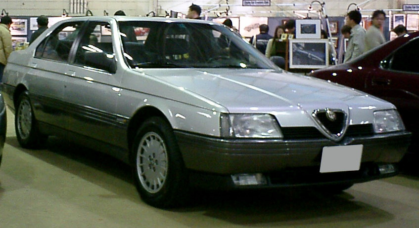 Description: Alfa164 (E-164A) Source: Toshi_156 Auther: Toshi_156 Location: Nerima,Tokyo,Japan Date: 14 March 2004